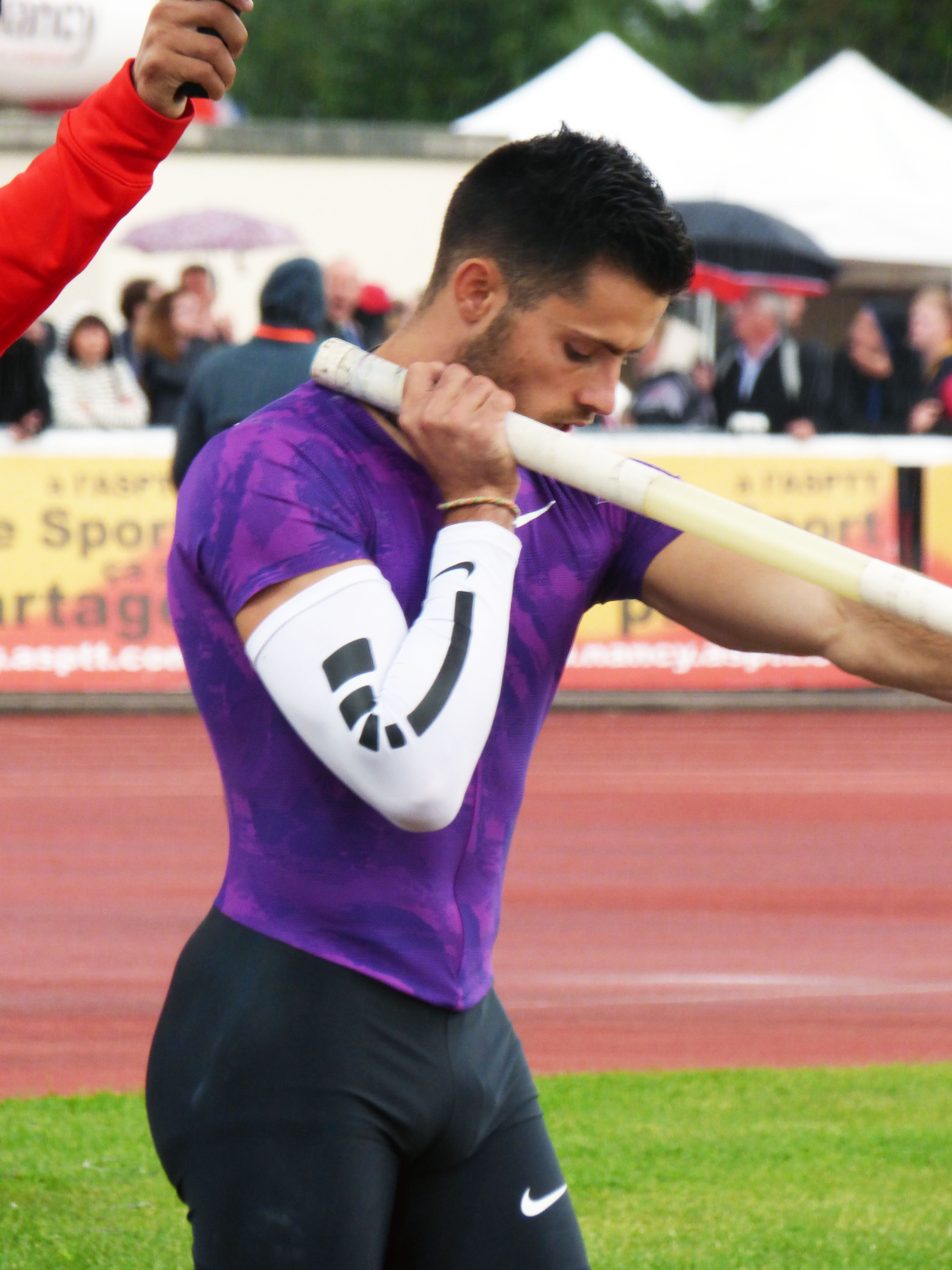 2016 Meeting Stanislas